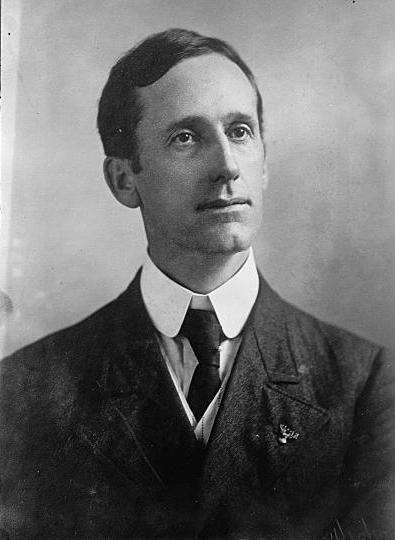 Portrait of Claude R. Porter, candidate for Iowa Governor, U.S. Senate, and various other positions